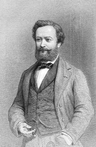 Portrait of French writer Edmond About (1828-1885) by Charles-Michel Geoffroy (1819-1882)